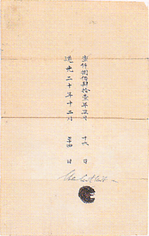 The Convention of Chuenpee (part 4).